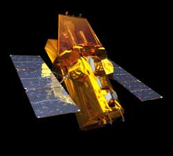 Computer rendering of the Swift spacecraft